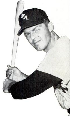 Chicago White Sox centerfielder Jim Landis in a 1962 issue of Baseball Digest.